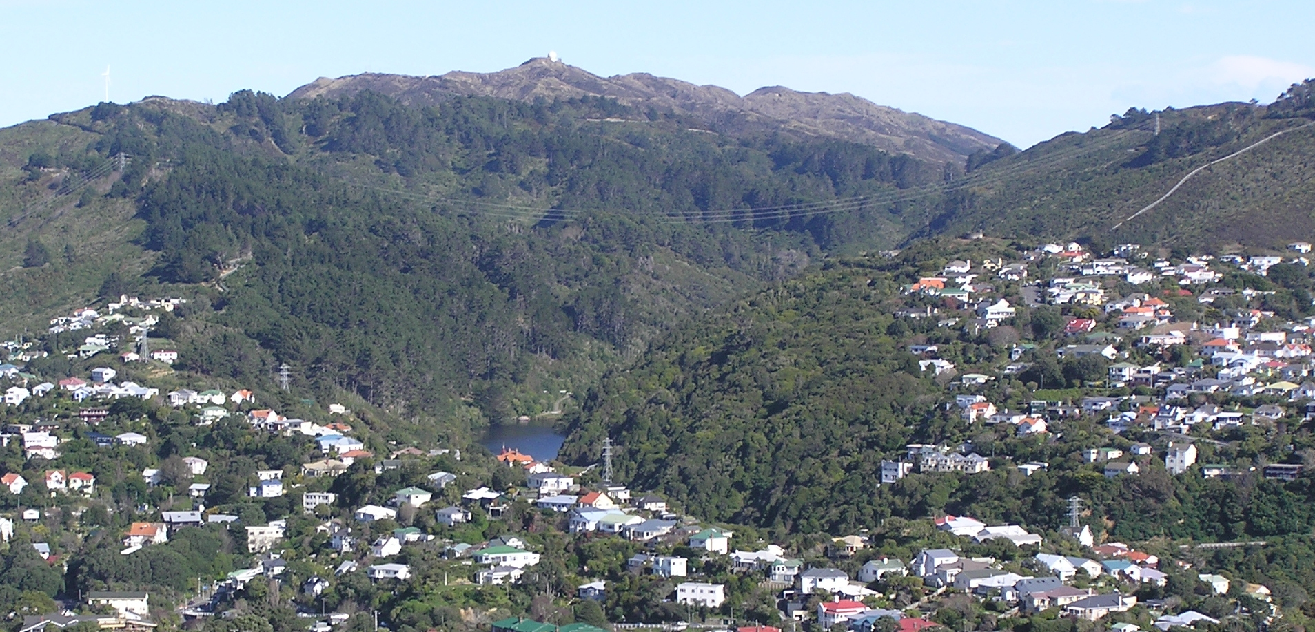 Karori Wildlife Sanctuary location as seen from the north (photographed from Tinakori Hill). It lies in the valley surrounded on the left by Polhill with the Brooklyn wind turbine and the airport radar dome (on Hawkins hill), and to the right by Wrights hill. Wellington, New Zealand